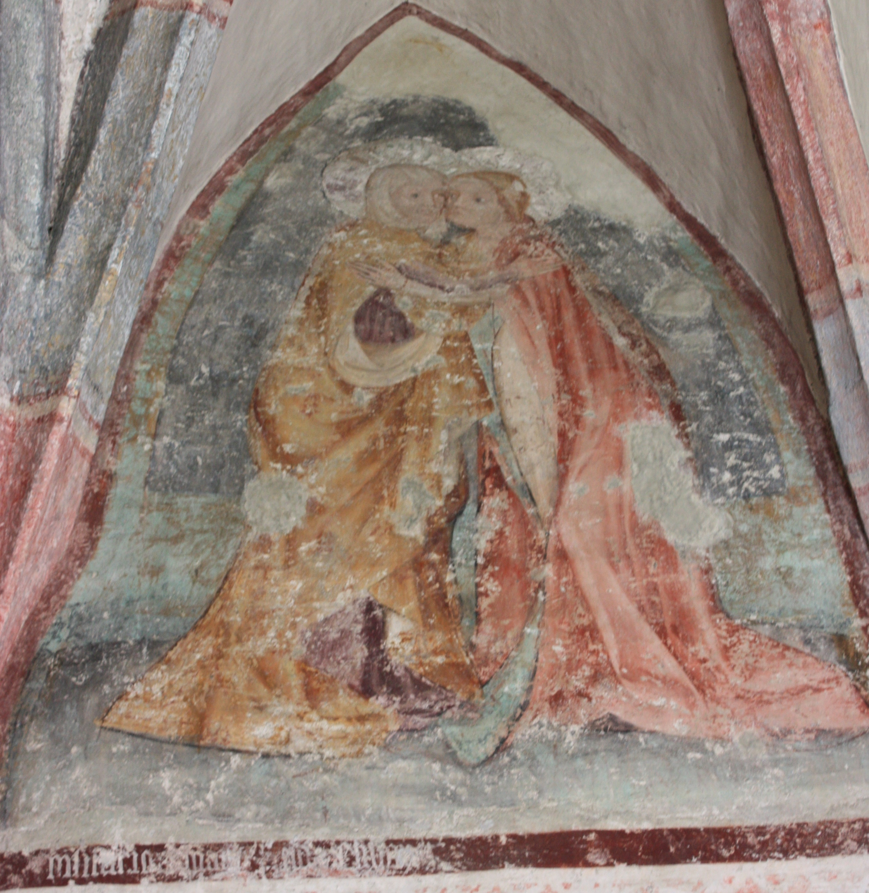 Parish church Saint John Ev. - Fresco Locality:Weitensfeld Community:Weitensfeld